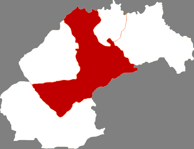 Location of Qian Gorlos Mongol Autonomous County in Songyuan City, China